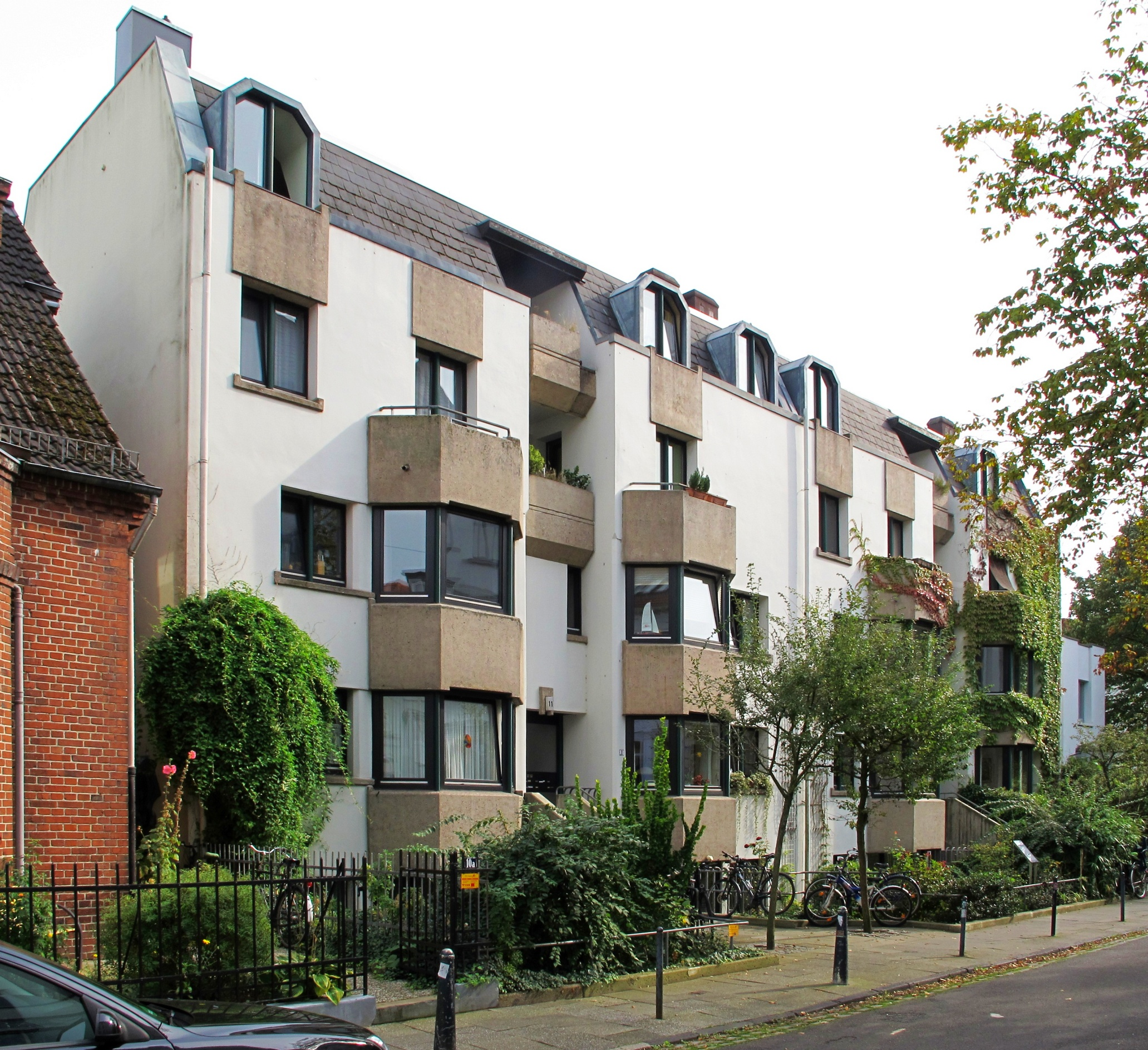 Mozartstraße 11+12, Bremen (Germany)